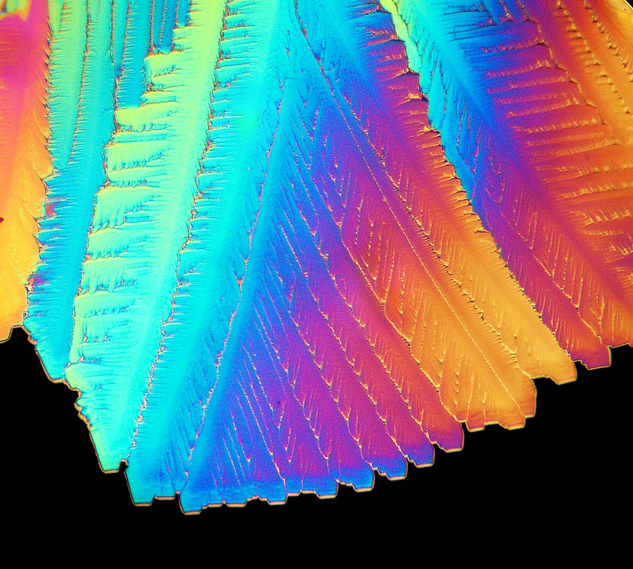 Citric acid crystals under polarized light (polarization microscope), enlarged 200x. Region approximate 800µm x 800µm. For a description how a polarization microscope works see Nikon